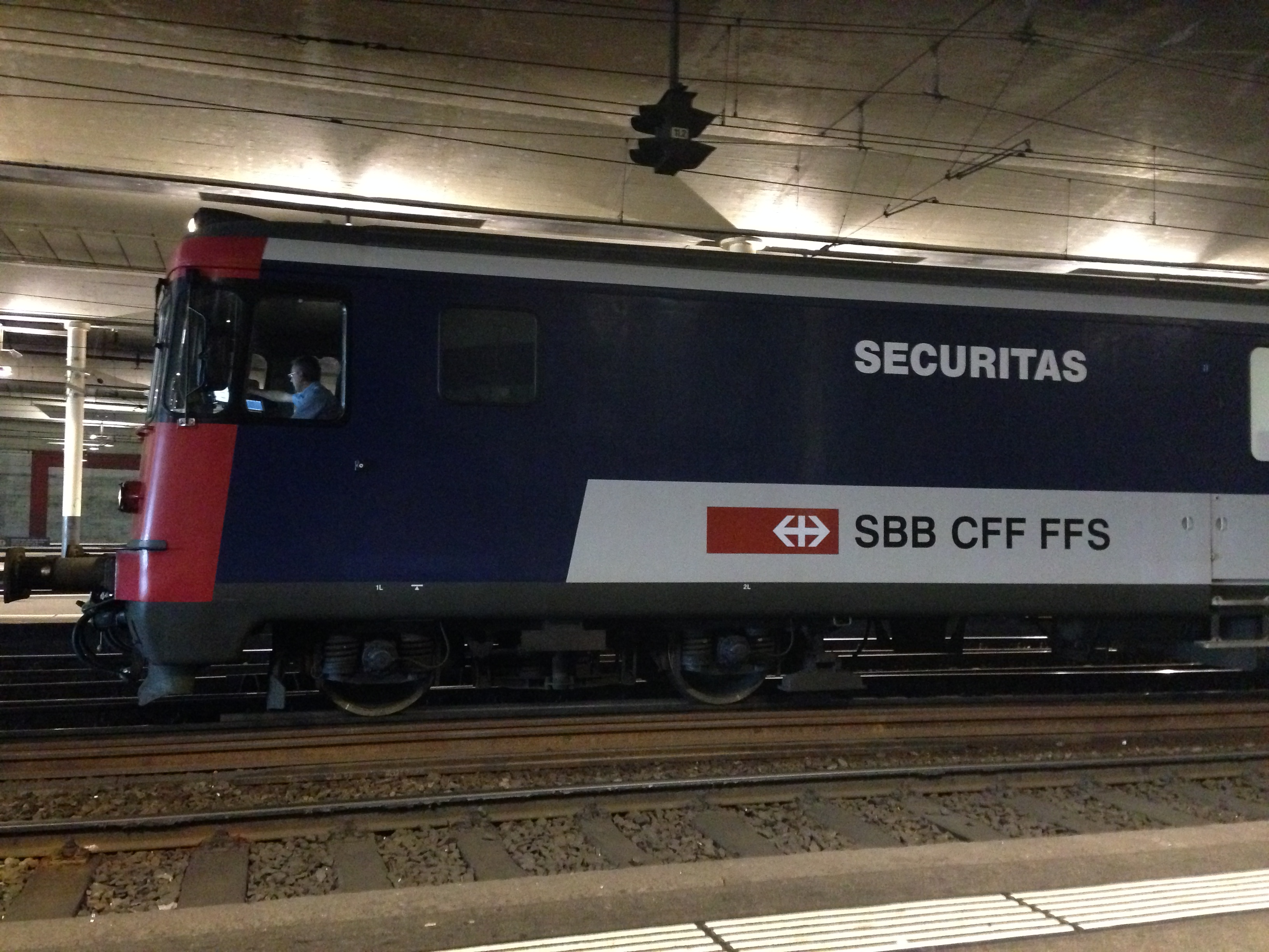 Jail Train of the Swiss Federal Railway in the train station of Bern.